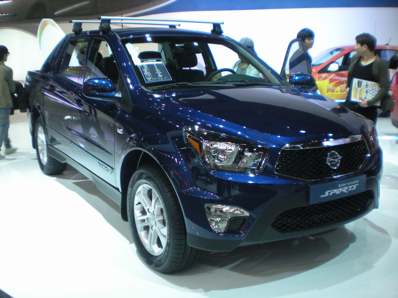 SSANGYONG KORANDO